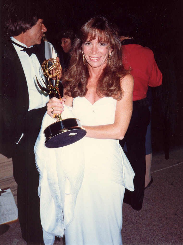 Photo of Cathy Guisewite at the Emmy Awards.